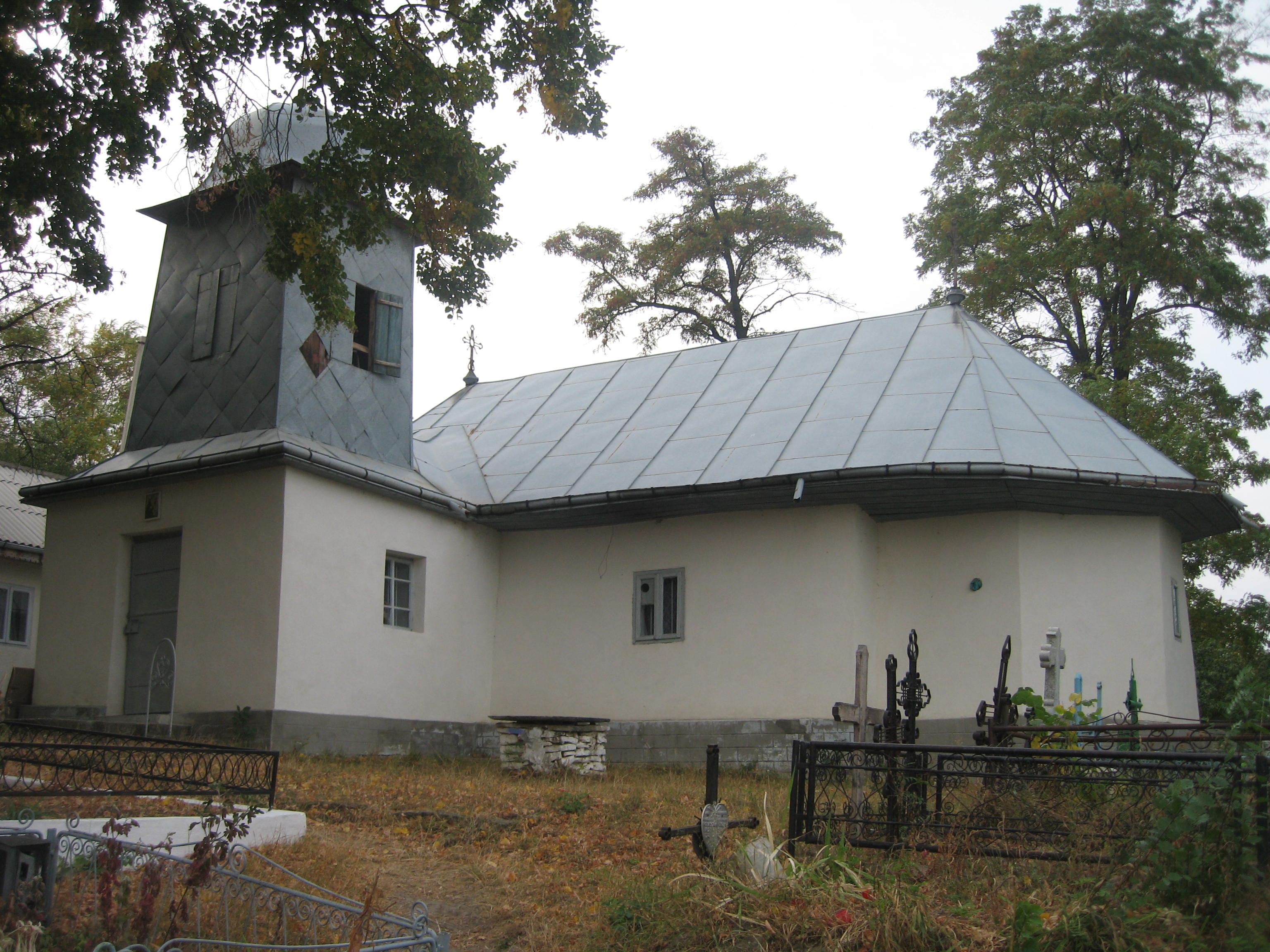 Biserica de lemn din Băiceni